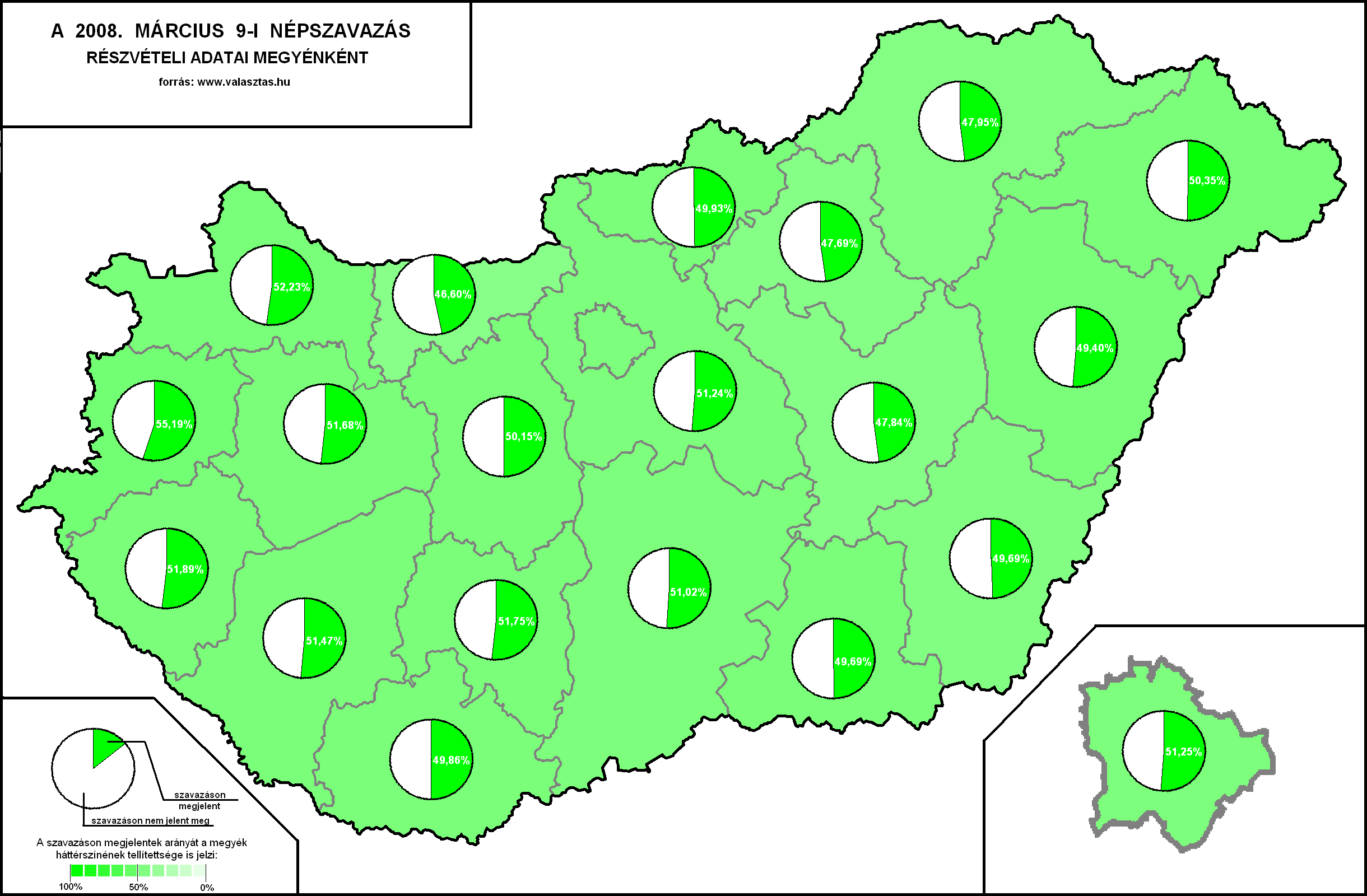 Participation by County, 2008 Hungarian referendum